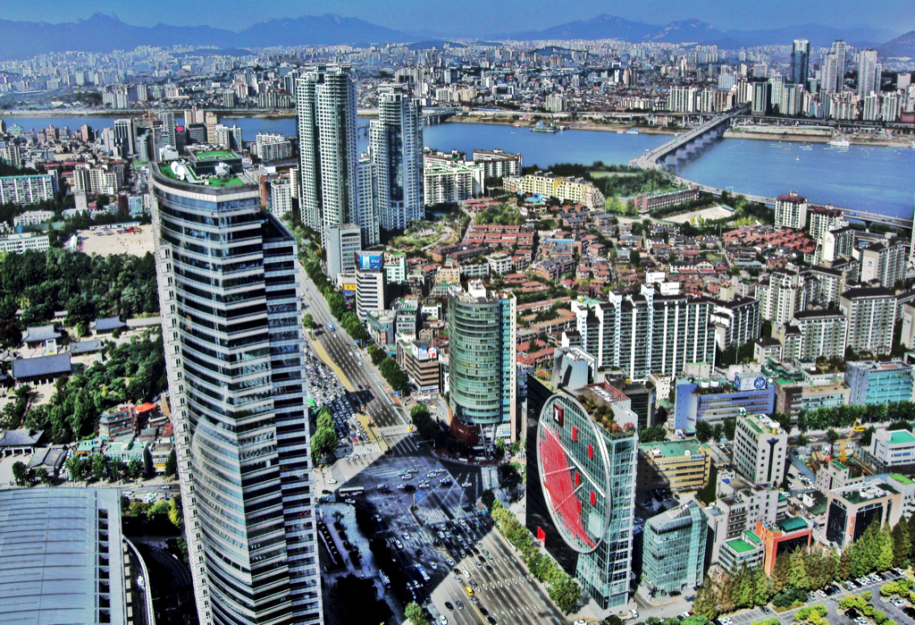 Samseong-dong, Gangnam-gu, Seoul